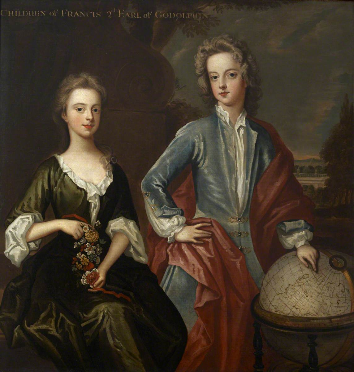 Kneller, Godfrey; William Godolphin (c.1700-1731), Viscount Rialton, Later Marquess of Blandford and His Sister, Henrietta (d.1776), Later Duchess of Newcastle; National Trust, Godolphin